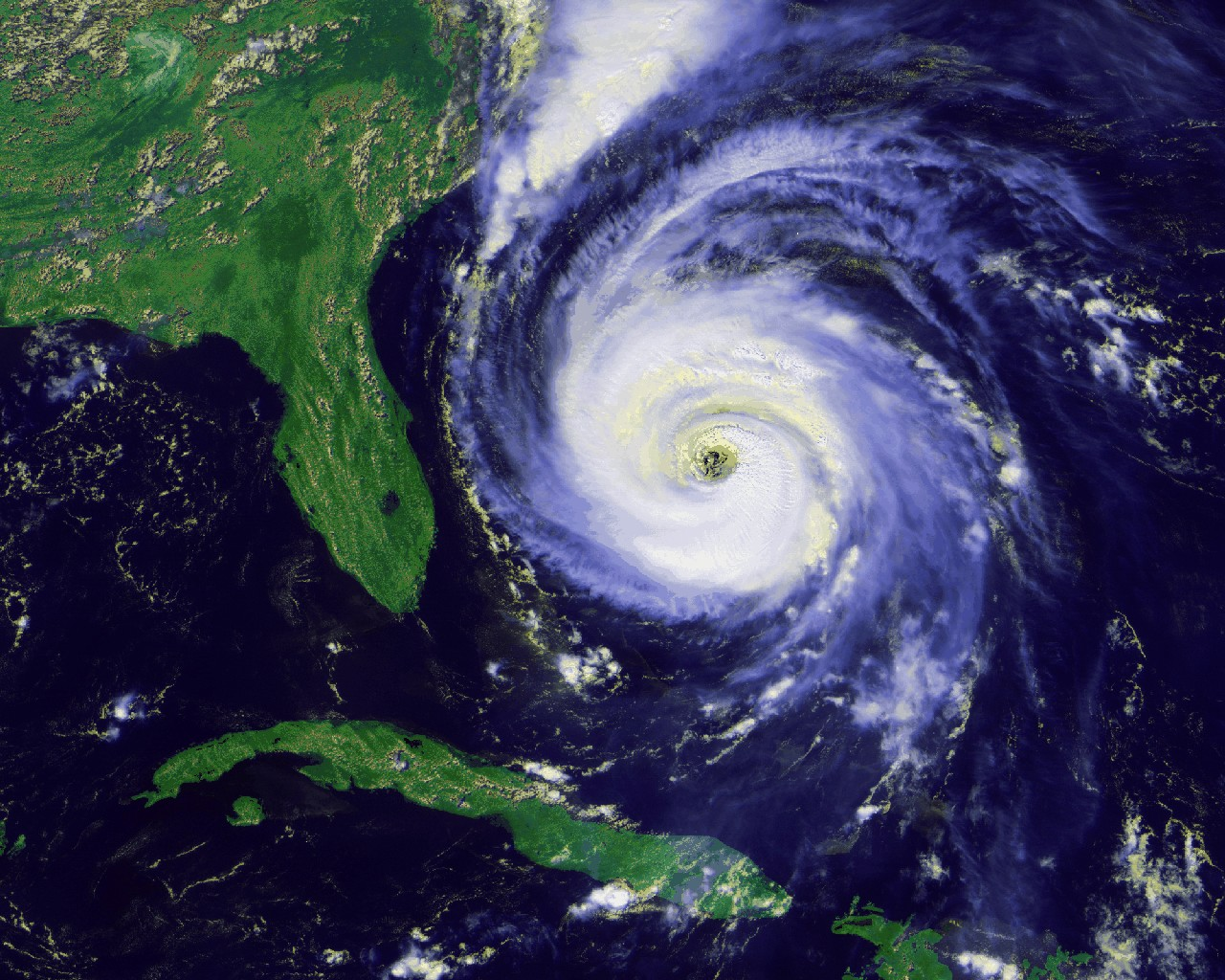 Hurricane Fran at peak intensity on September 4 at 1715 UTC.